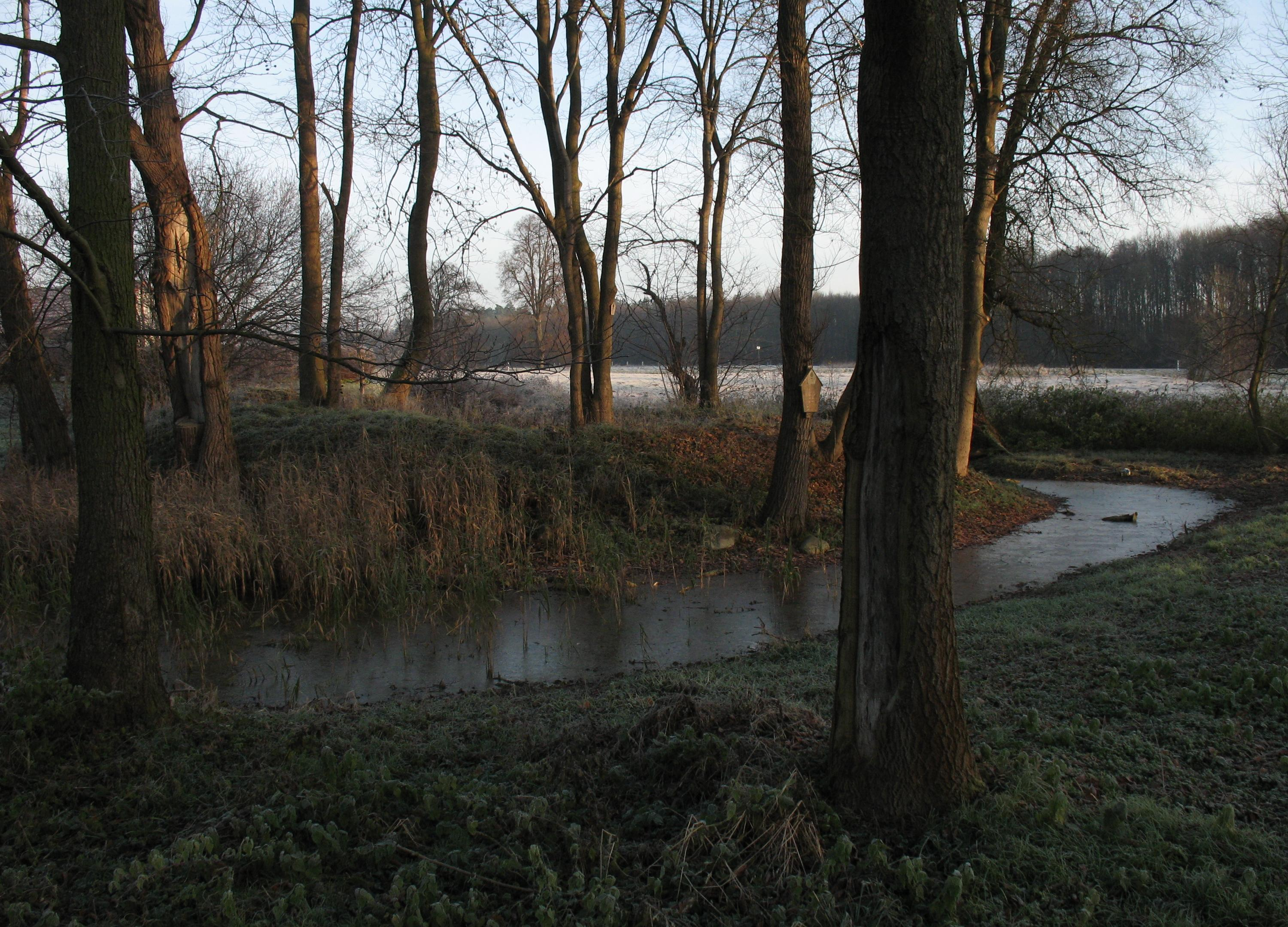 Motte in Leizen in Mecklenburg-Western Pomerania, Germany